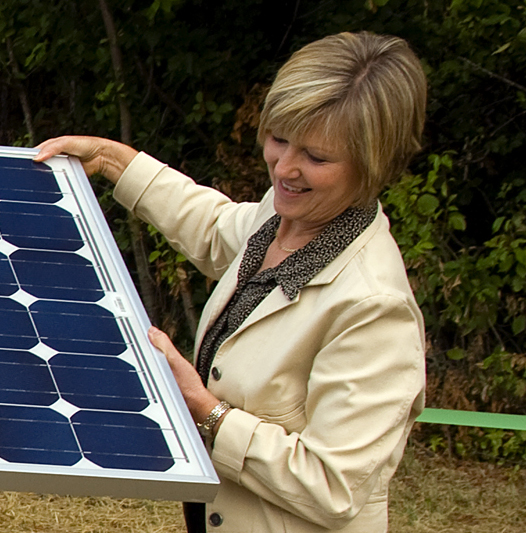 Cropped version of only Fowler from: Oregon Governor Ted Kulongoski and Portland General Electric CEO Peggy Fowler install the first solar panel in Oregon's Solar Highway.